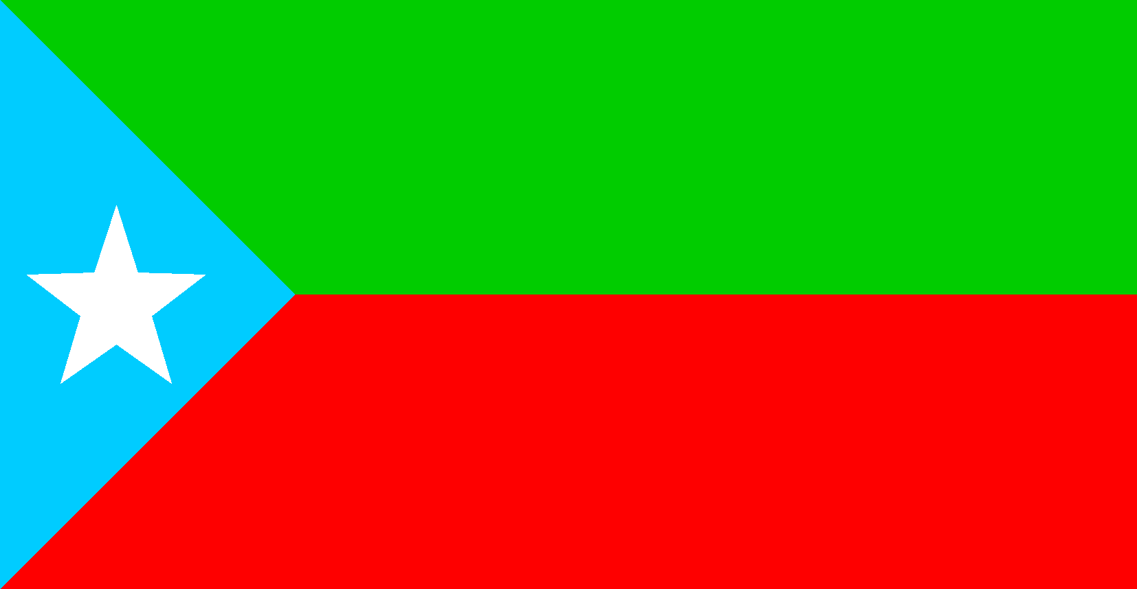 Re-made flag of Balochistan. Older versions were low-quality.